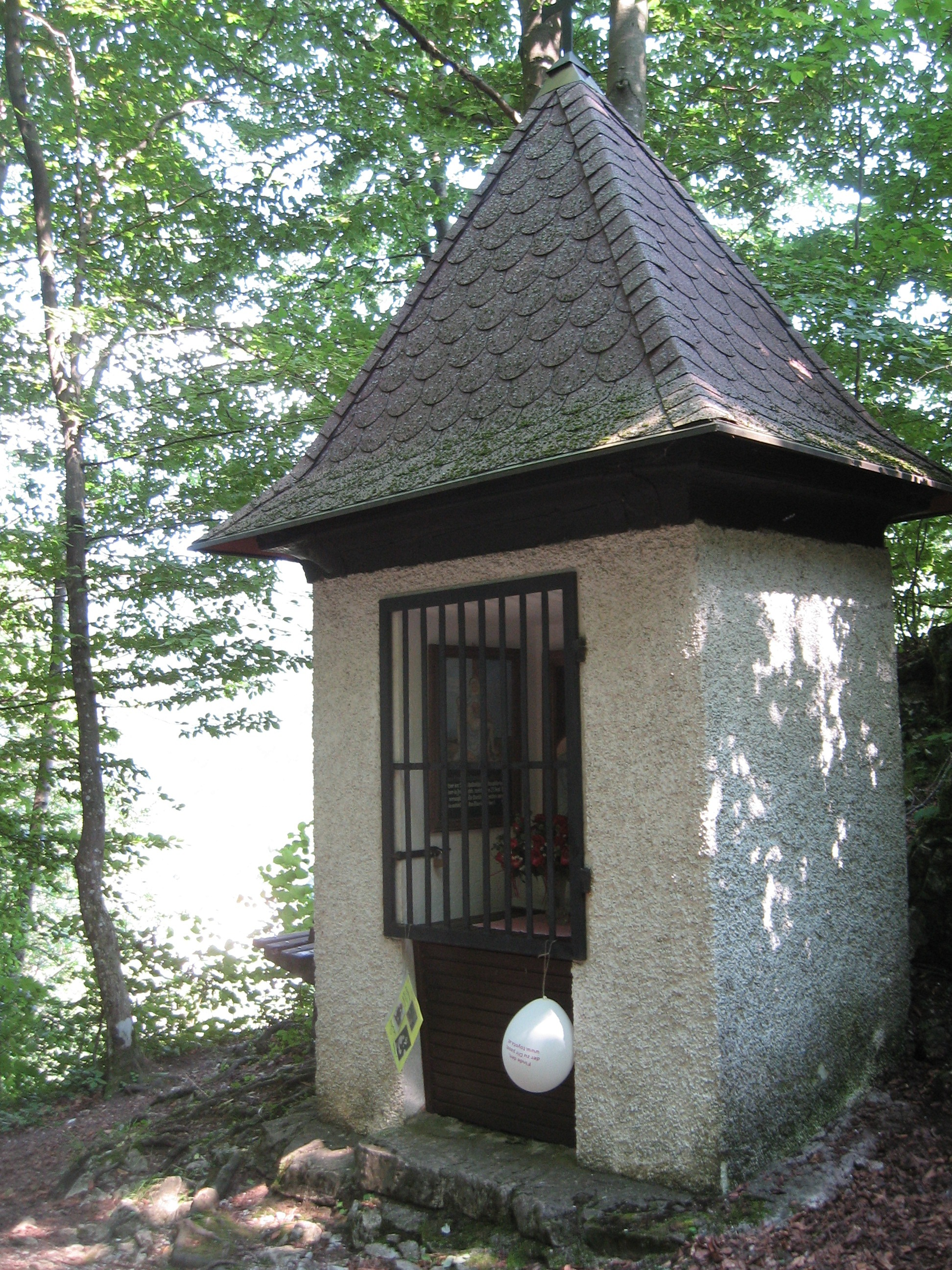 Anna-Kapelle (Anna-Kreuz) in Frakenfels, Austria